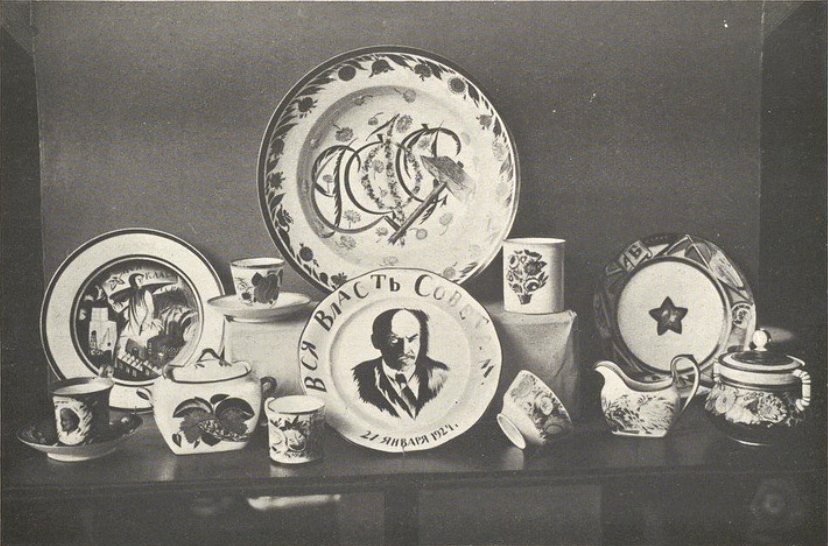 Porcelain painting (sketches by Sergey Chekhonin and Mikhail Adamovich). Exhibits of the Exposition internationale des Arts décoratifs et industriels modernes (1925)